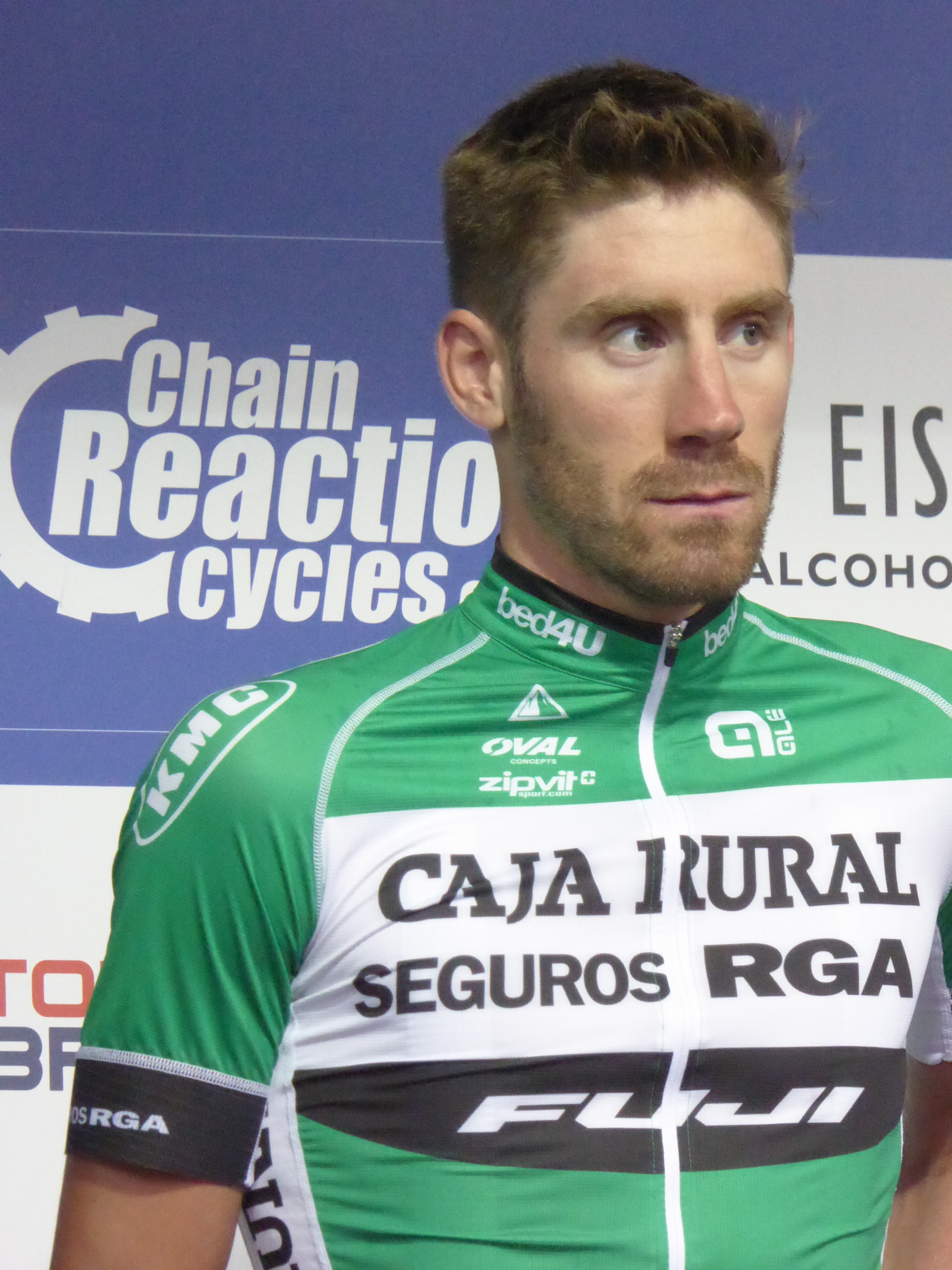 Domingos Gonçalves (Caja Rural-Seguros RGA), pictured at the 2016 Tour of Britain team presentation in Glasgow on 3 September 2016.